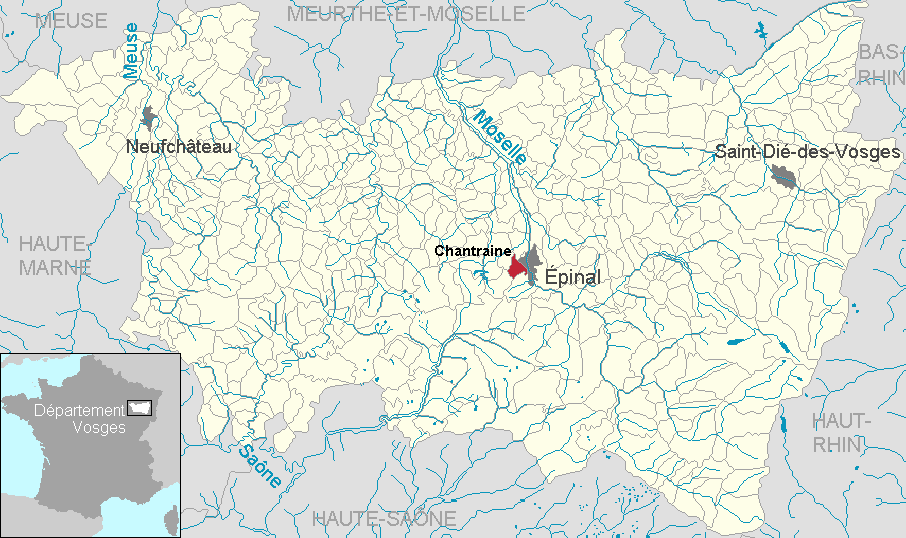 Chantraine in the department of Vosges, Lorraine, France